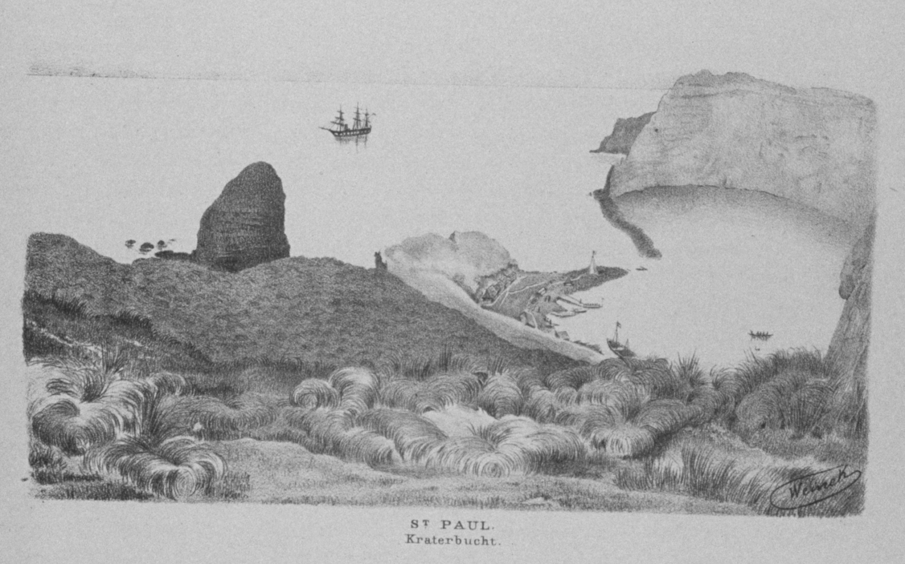 Drawing of Saint-Paul Island in the Indian Ocean with Crater Bay. SMS Gazelle is anchored offshore.